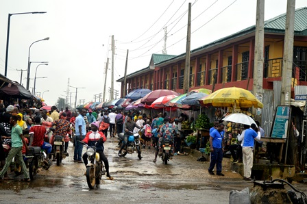 Egbeda, Lagos-Nigeria